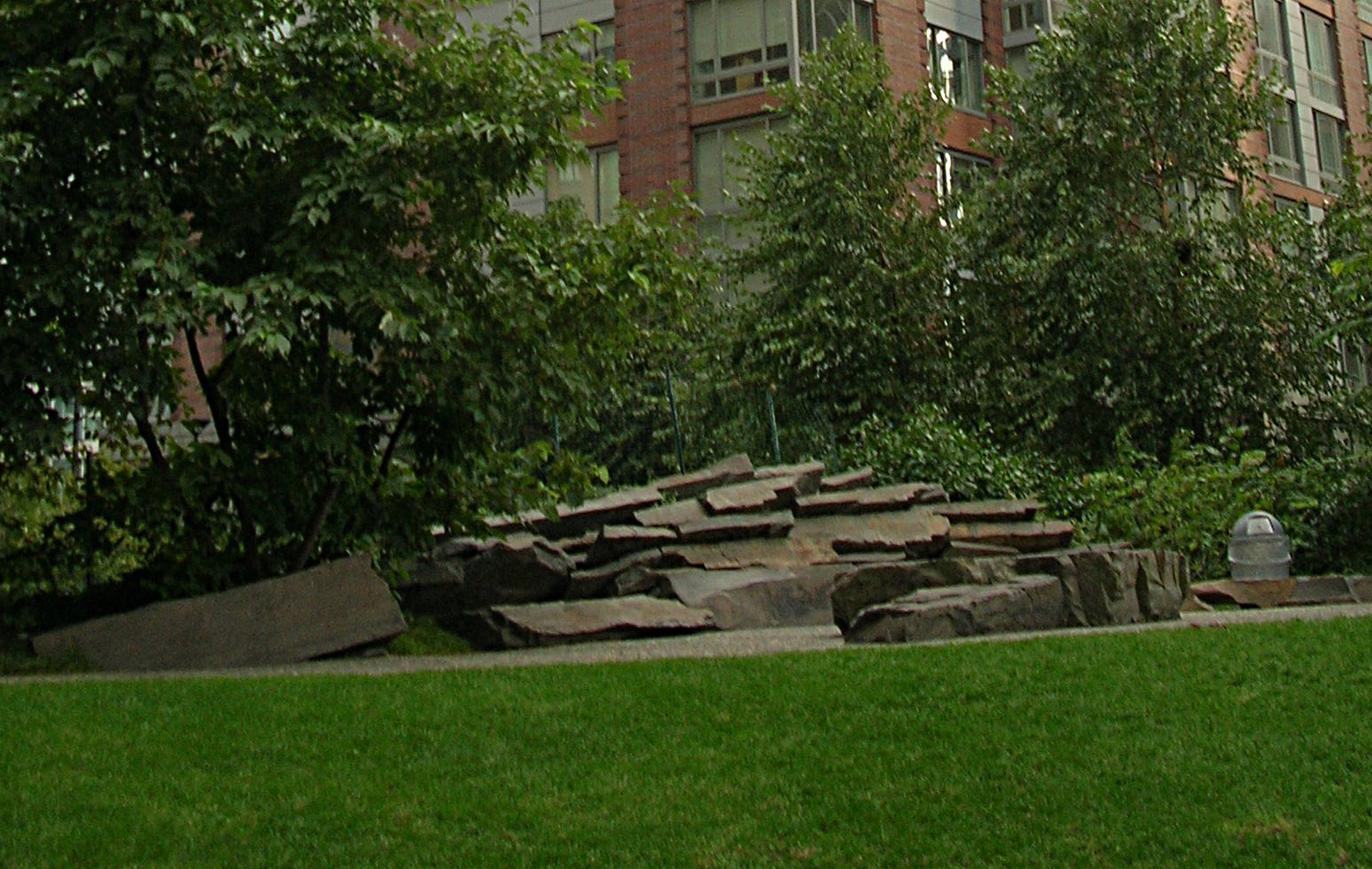 Teardrop park, New York City